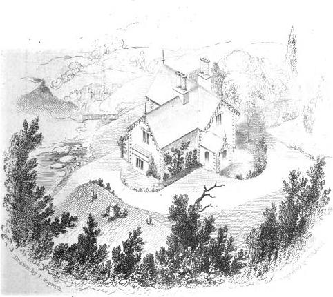 Chesterholme, Northumberland, England, isometric drawing from the title page of A Treatise on Isometrical Drawing as Applicable to Geological and Mining Plans (1838) by Thomas Sopwith.